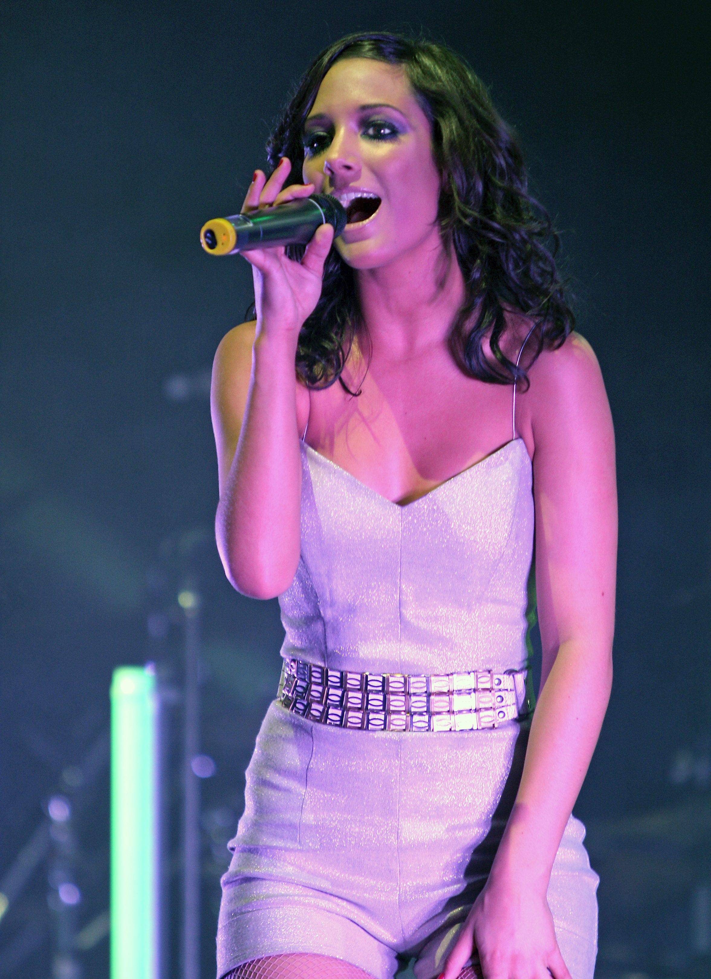 Frankie and the band, onstage in Brighton, UK. - 25th June 2009